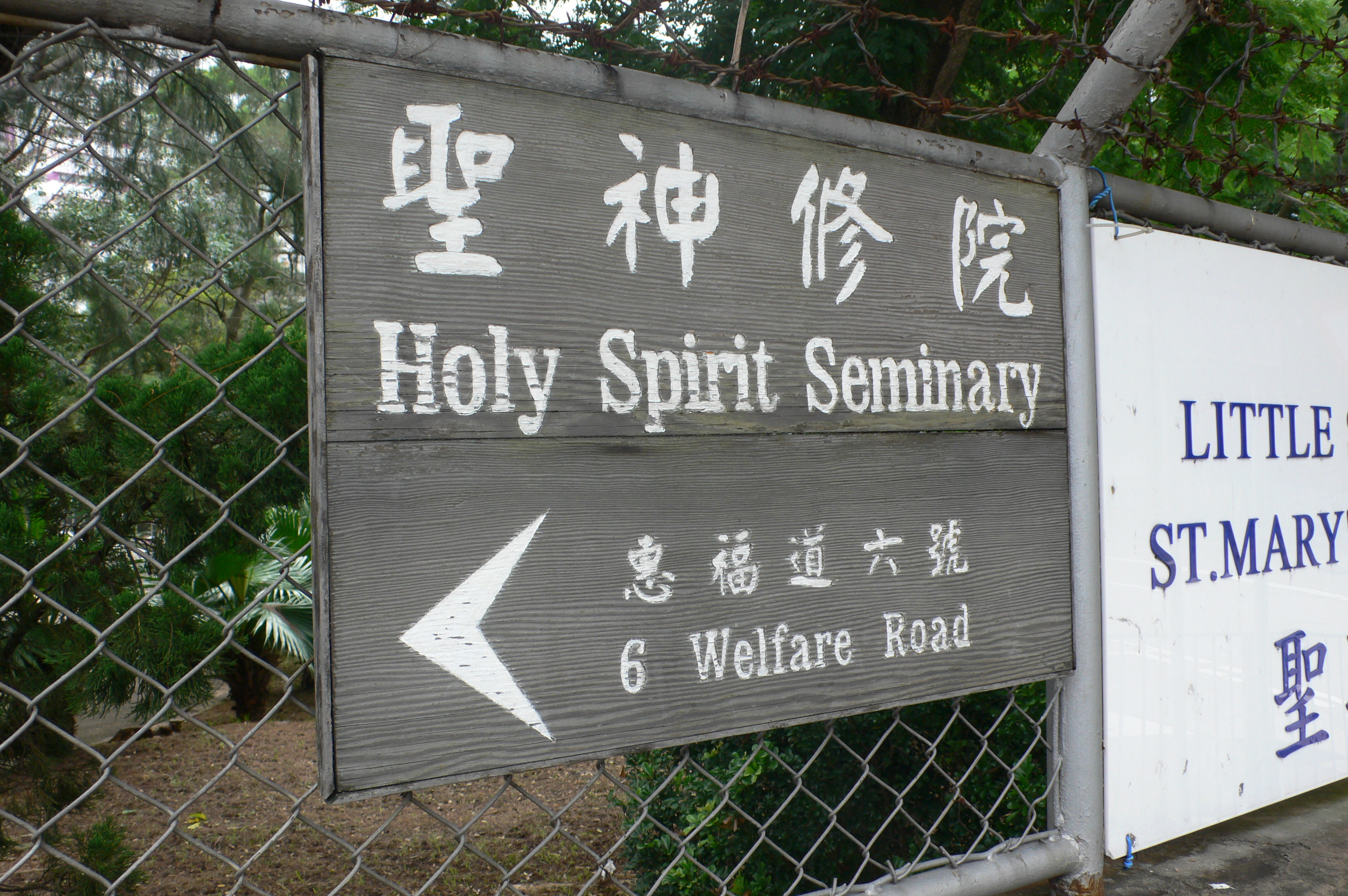 The Road Sign leading people to Holy Spirit Seminary, HOng Kong